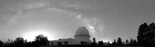 Pan shot of NOFS at night